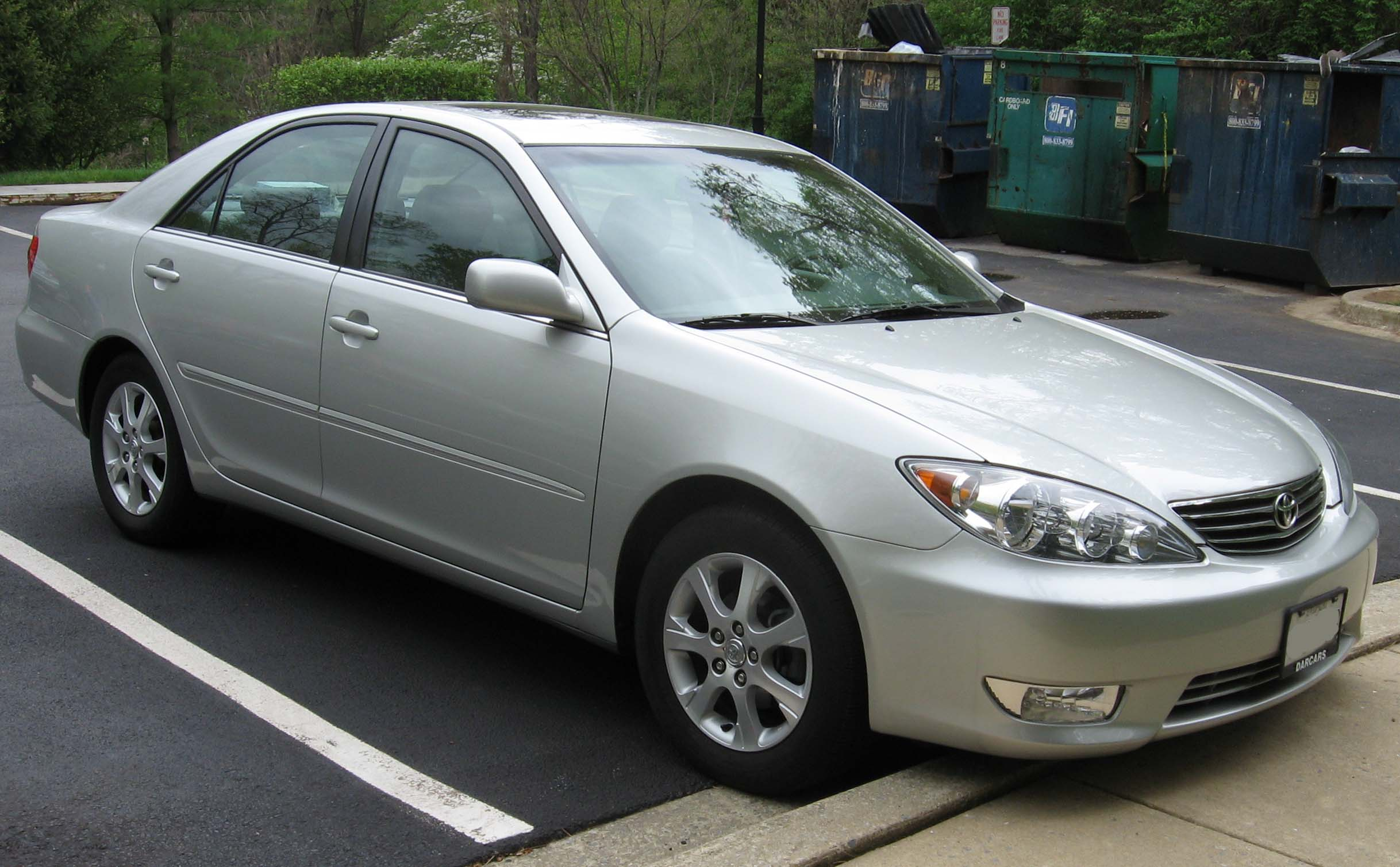 2005-2006 Toyota Camry photographed in USA.